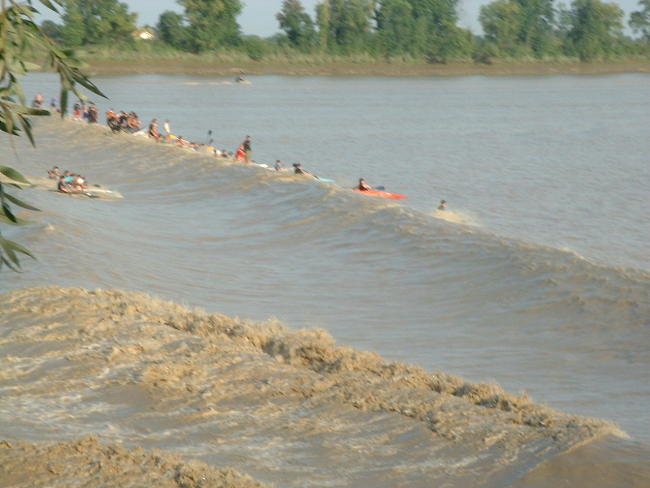 Tidal bore of the Dordogne river and surfers in Saint-Pardon, Vayres, France, 2006 09 09